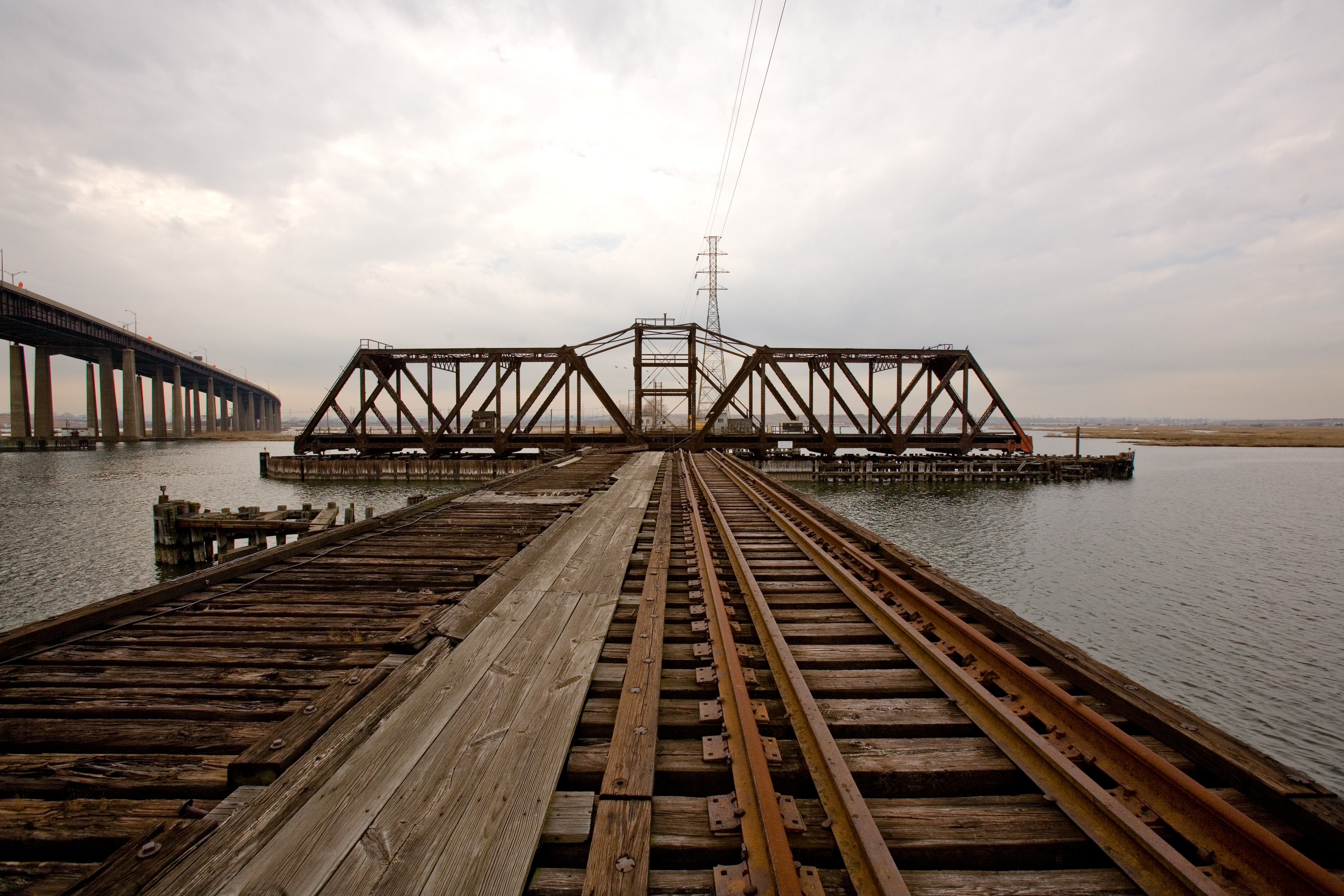 The closed DB Drawbridge on the former Boonton Line from Hoboken to Montclair. The drawbridge was closed in 2002 when the line was closed and has remained in the open position since.